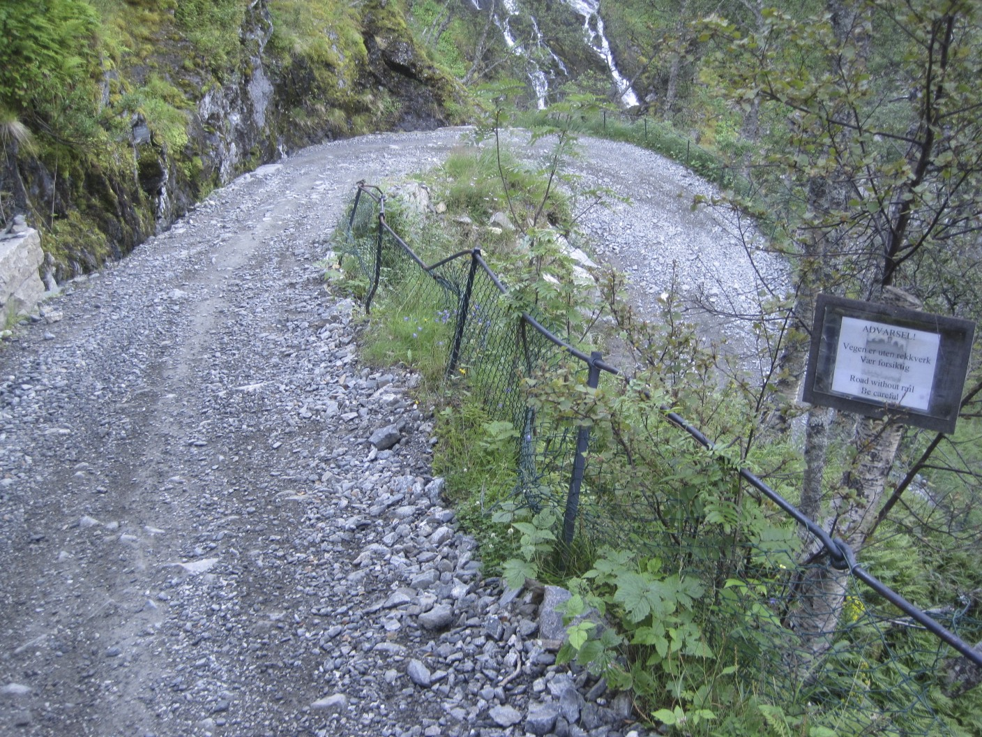 The Rallarvegen trail, Norway. Typical hairpin bend.